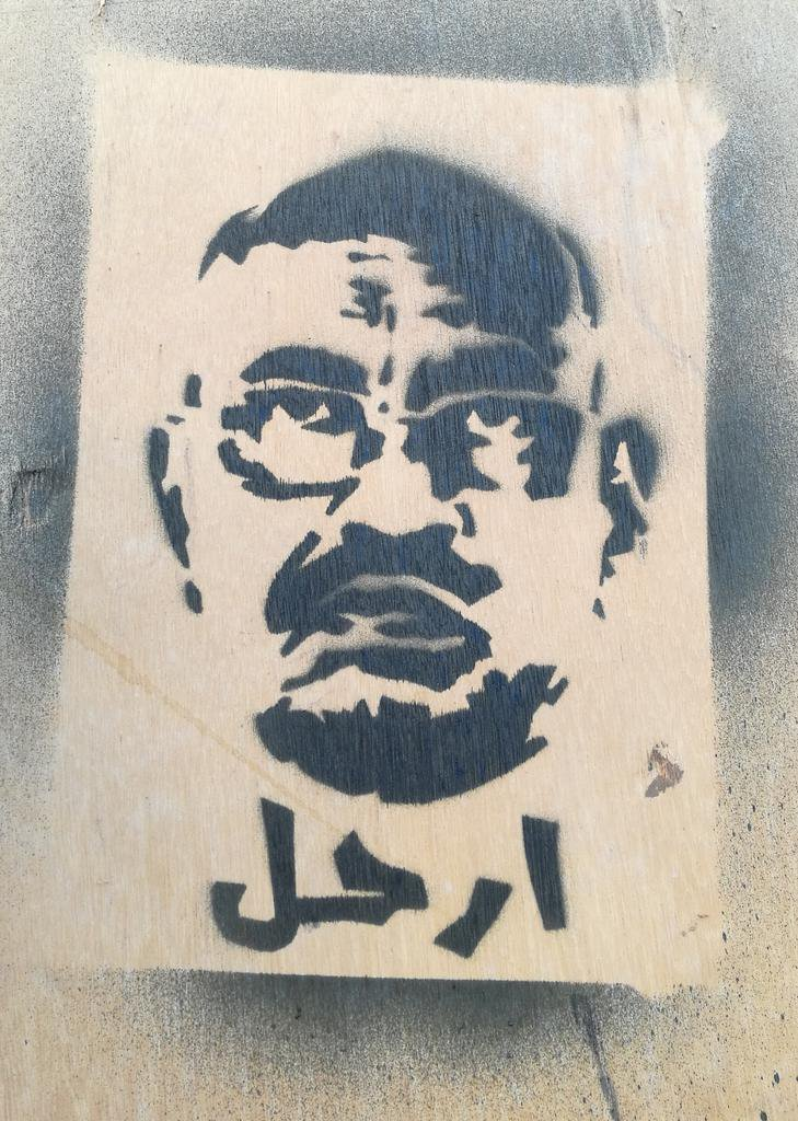 The first revolutionary street stencil in Khartoum.